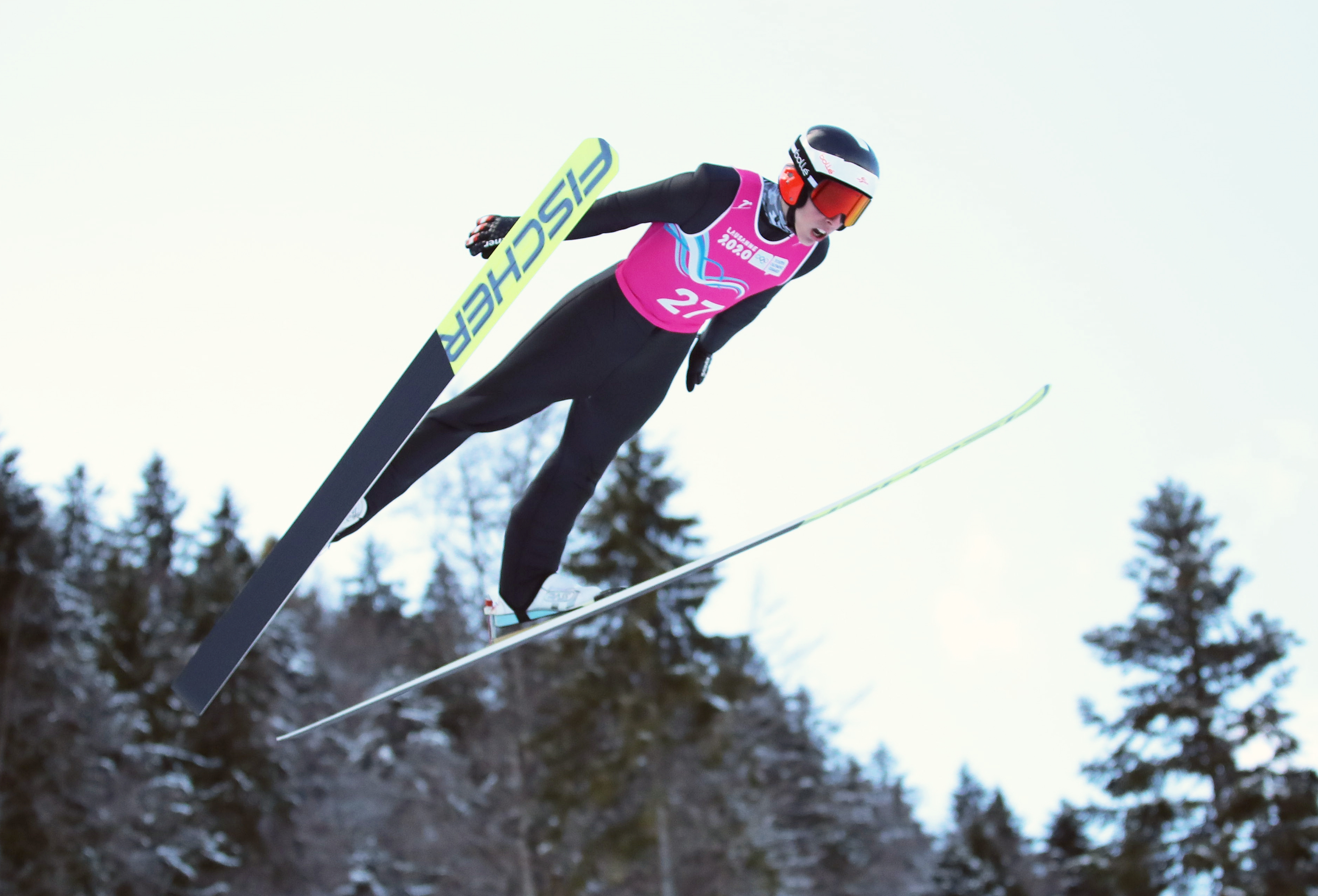 1st Round of Ski jumping – Men's Individual at the 2020 Winter Youth Olympics in Lausanne on 19 January 2020.